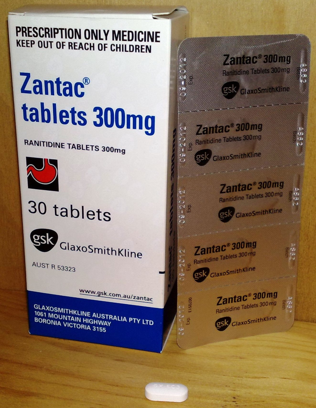 Zantac